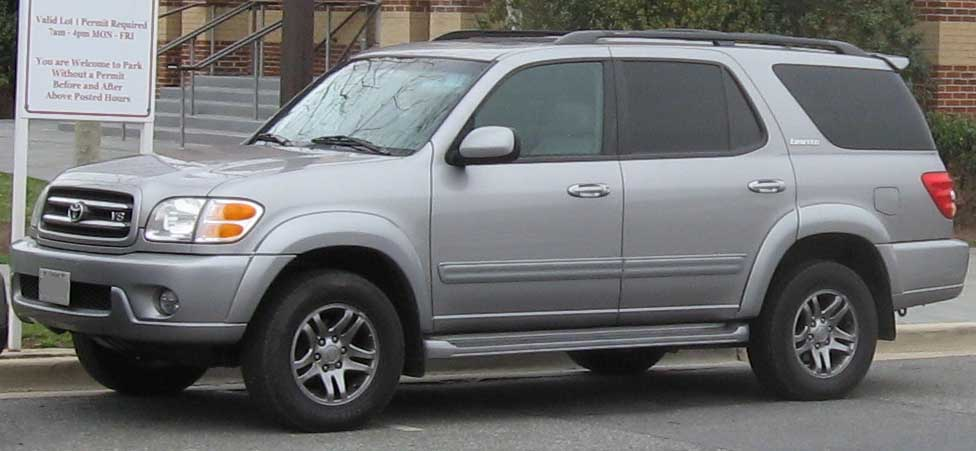 2001-2004 Toyota Sequoia photographed in College Park, Maryland, USA.